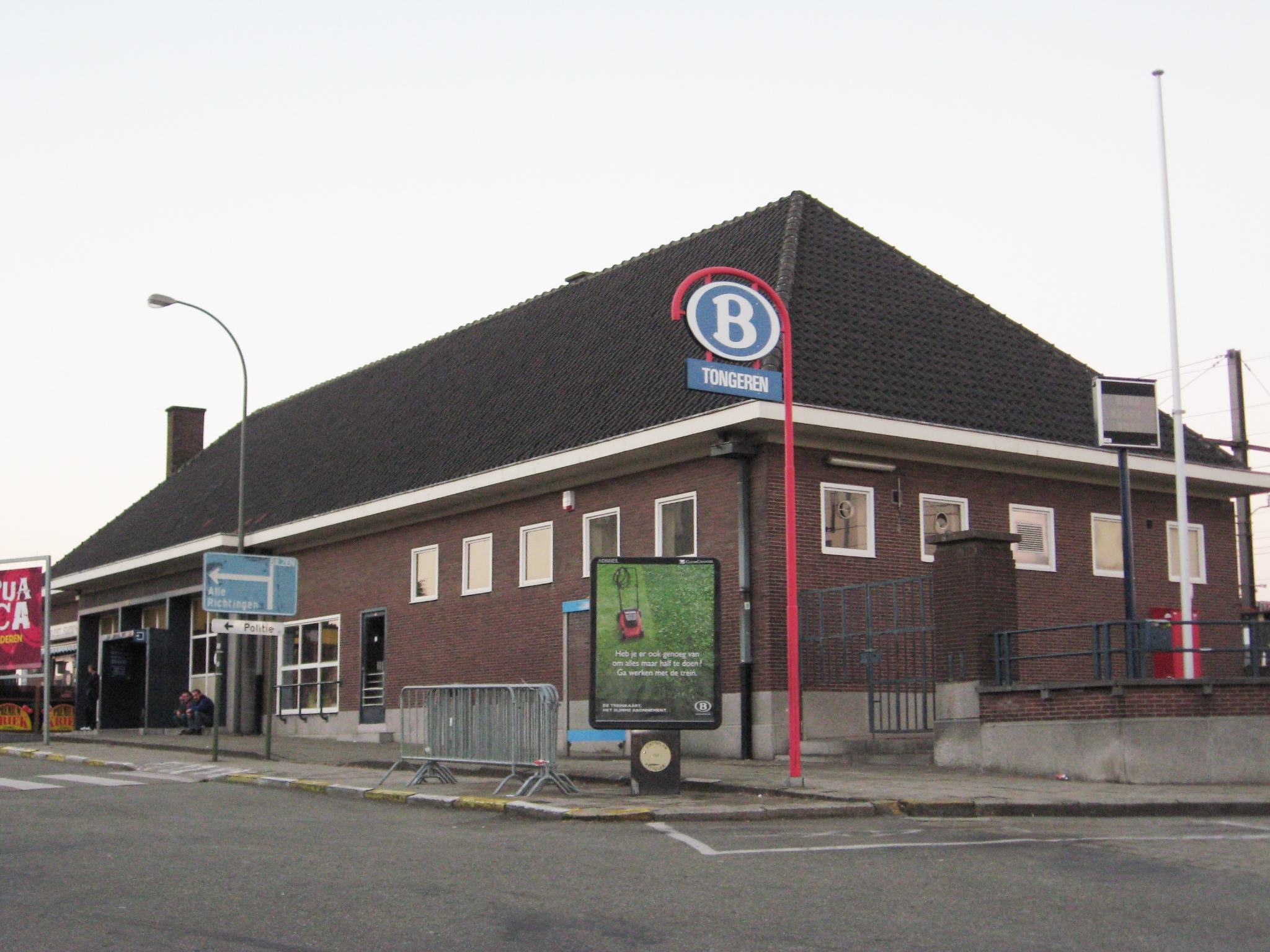 Train station of Tongeren, Limburg, Belgium